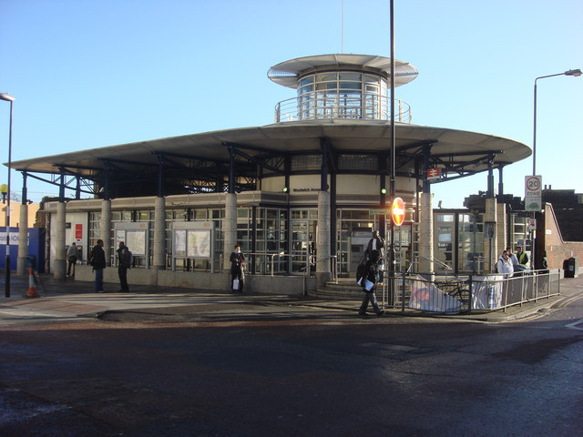 Woolwich Arsenal station, National Rail entrance This station opened in 1849, serving the North Kent Line from London to Gillingham. The station building was rebuilt in 1906 with a London brick-built structure, very typical of southeast London. The current station building dates from 1996, and has a modern design in steel and glass.